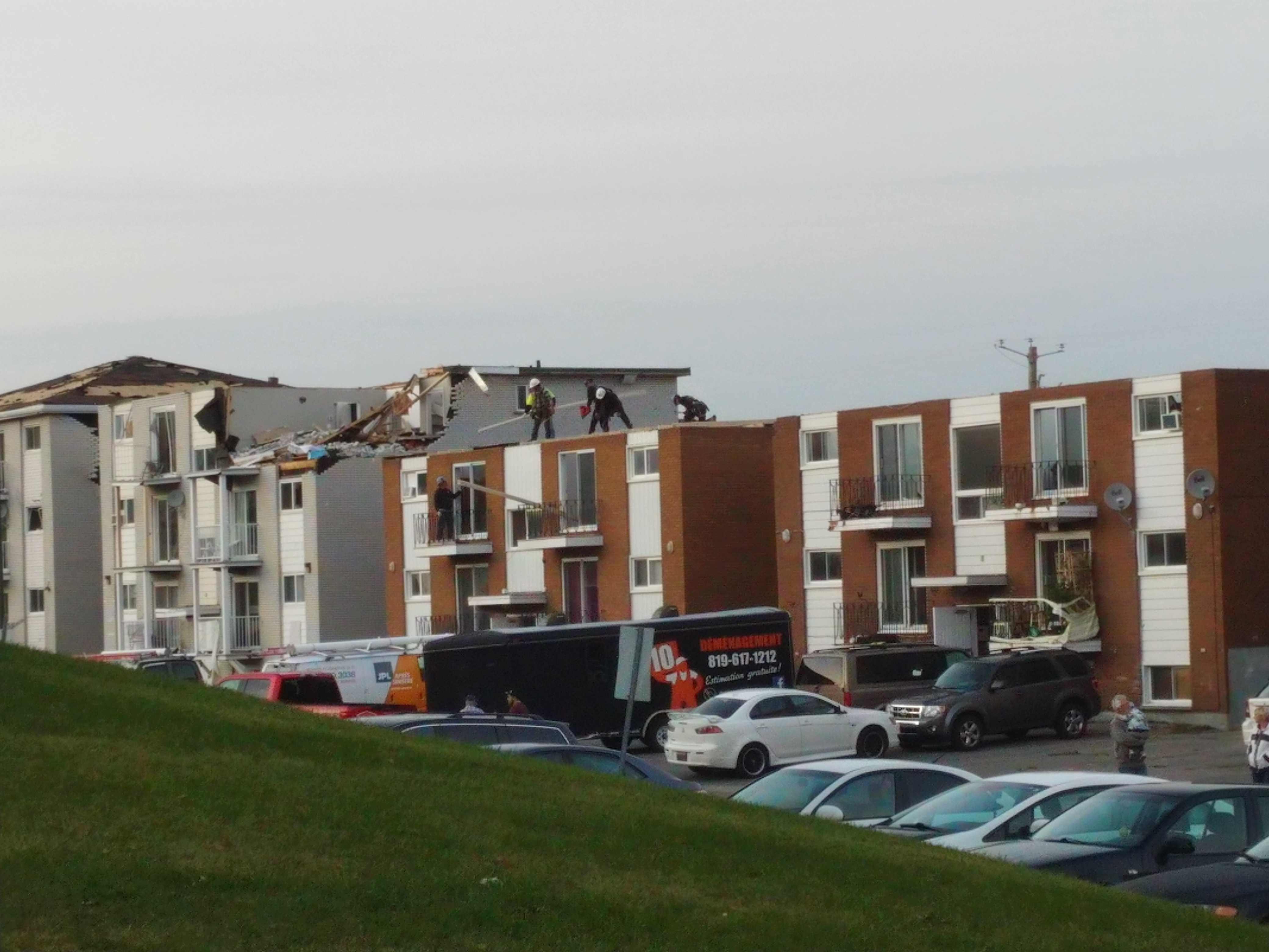 Damaged buildings on Georges-Bilodeau street in Hull, Québec three days after the tornado.